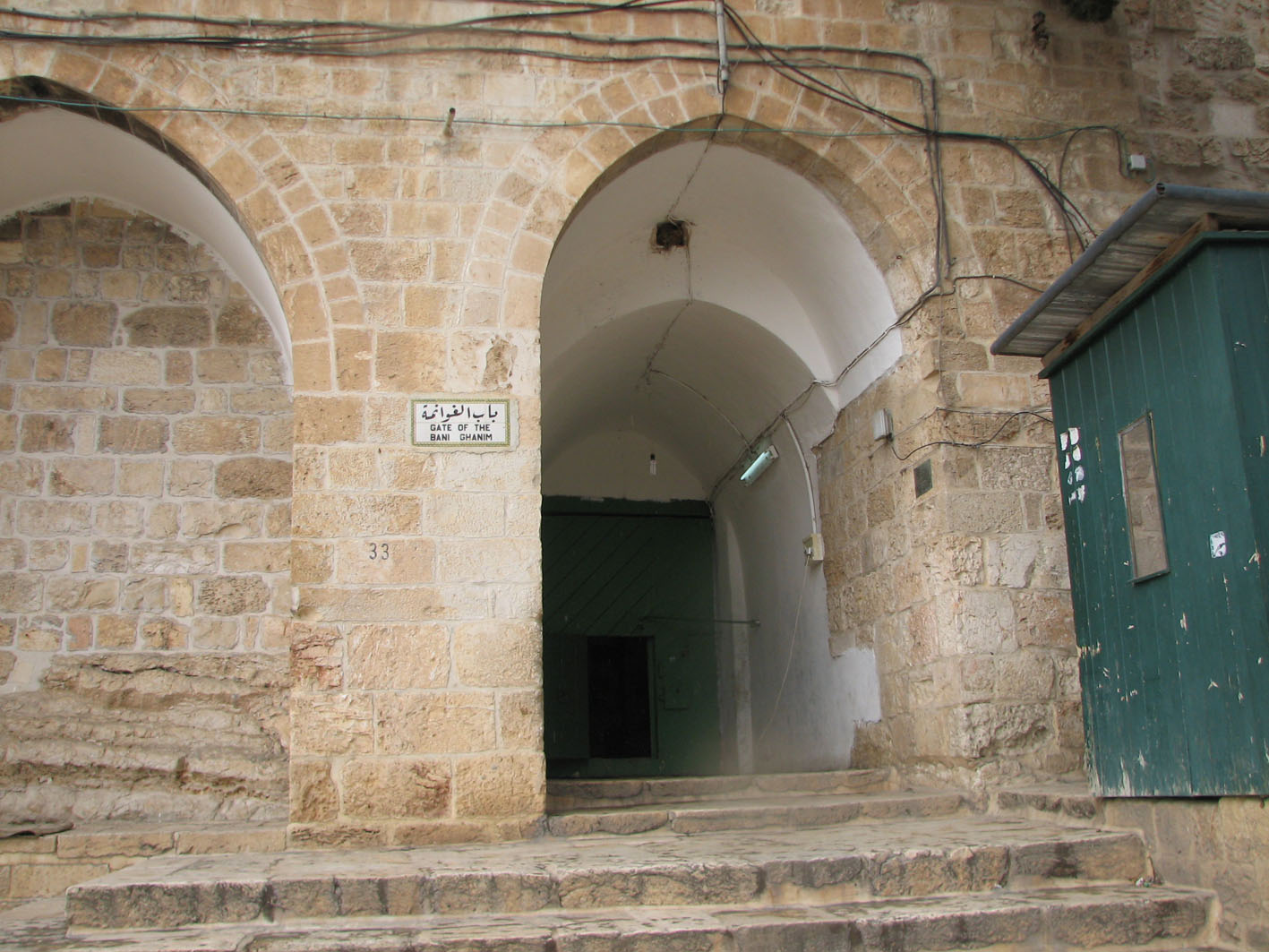 Al-Aqsa Mosque